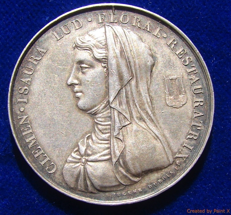 Toulouse France Silver Medal 1819 Clémence Isaure Medallion d.= 35 mm. 18.02 g Silver. Isaure, Clémence, Restorer of the Jòcs Florals (Jeux Floraux at Toulouse), 1450 Toulouse - ca. 1500 Portrait l., around: "CLEMEN · ISAURA LUD · RESTAURATRIX ·"/ Fowers, around: "HIS IDEM SEMPER HONOS M· DCCC· XIX". Wurzbach 3904 (Bronze). Medallist: (Joseph) Eugène Dubois, 1795 Paris - 1863 Lignières (Cher). Condition: VERY FINE+, old patina, no hidden faults.